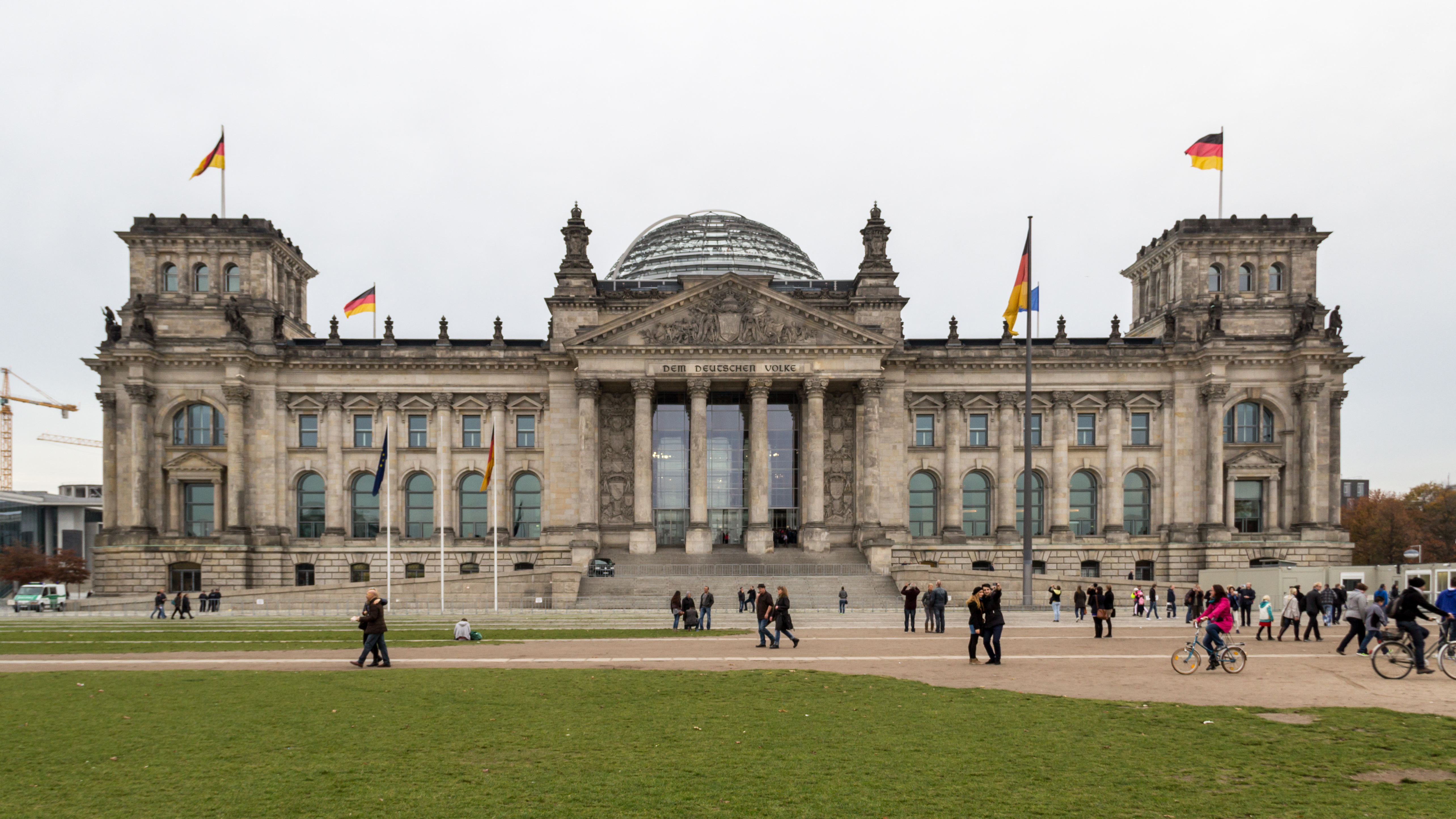 Reichstagsgebäude, Berlin, Germany This is a photograph of an architectural monument.